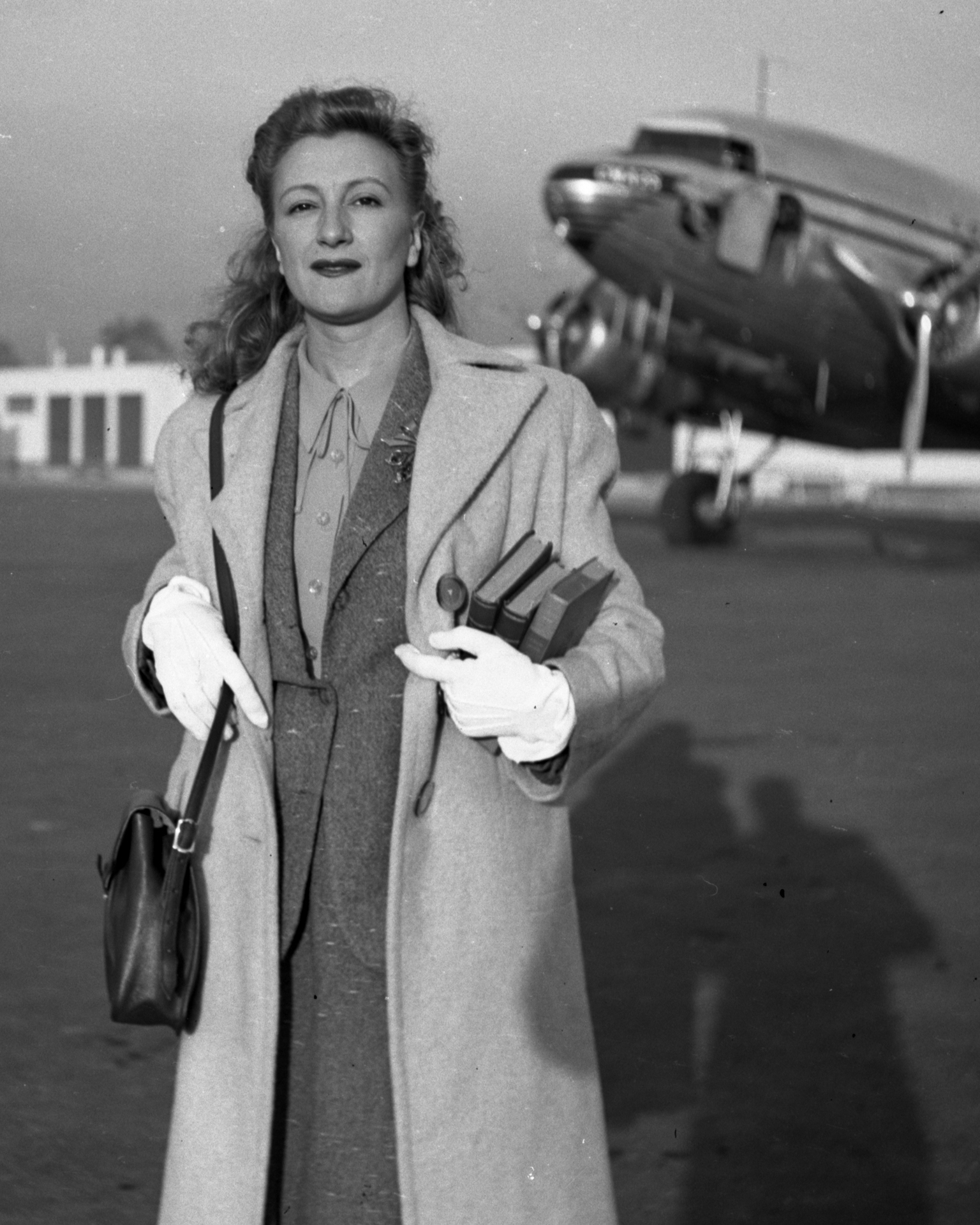 Esperanza López Mateos. Photograph by Henry Schnautz, 1946